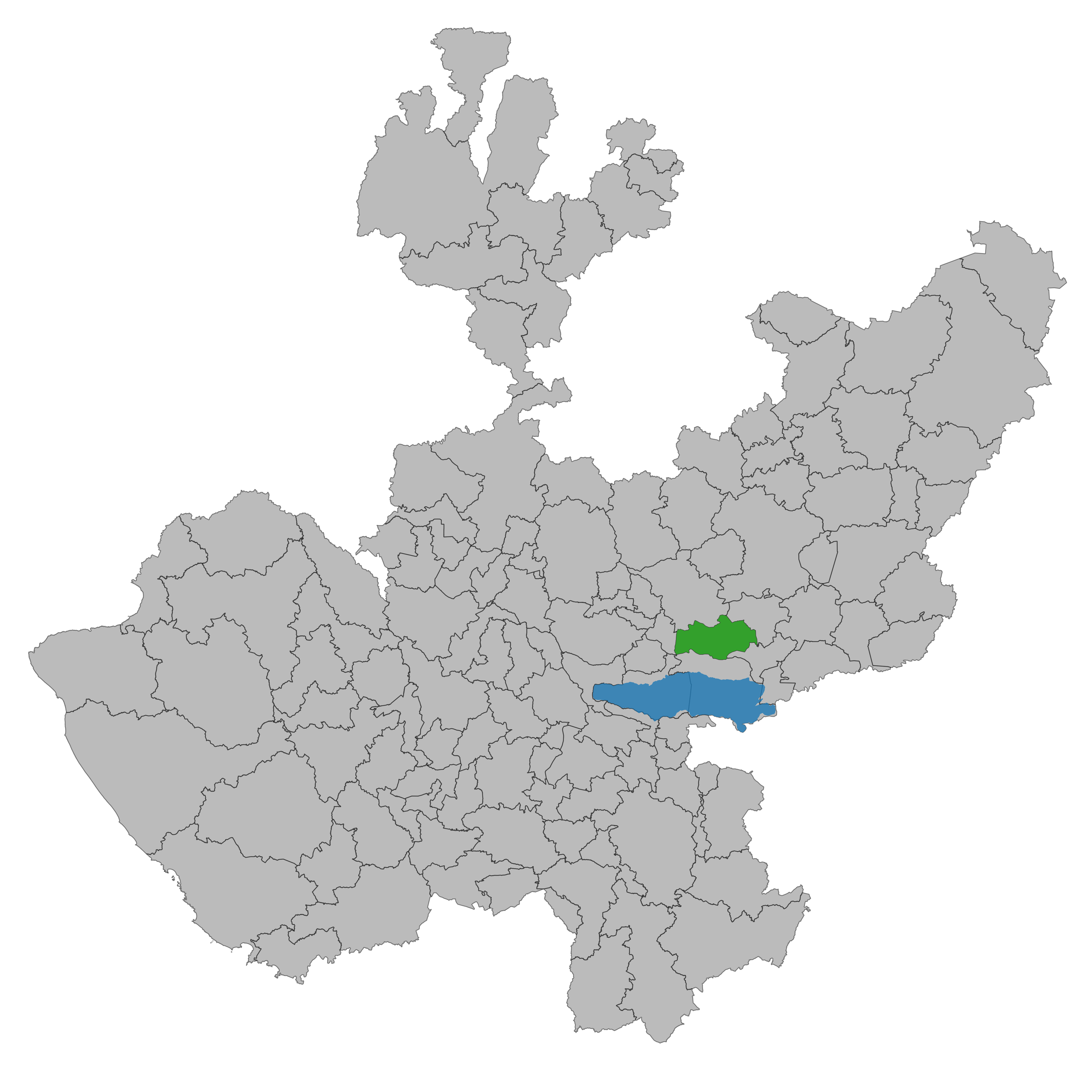 Municipality of Jalisco. Prepared with the software QGIS version 2.8.2 Wien & with information of SCINCE 2010 version 05/2013